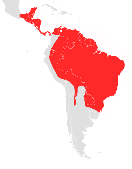 Distribution of Chrotopterus auritus